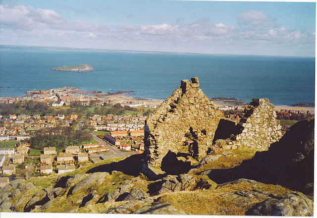 Ruined House on top of North Berwick Law.